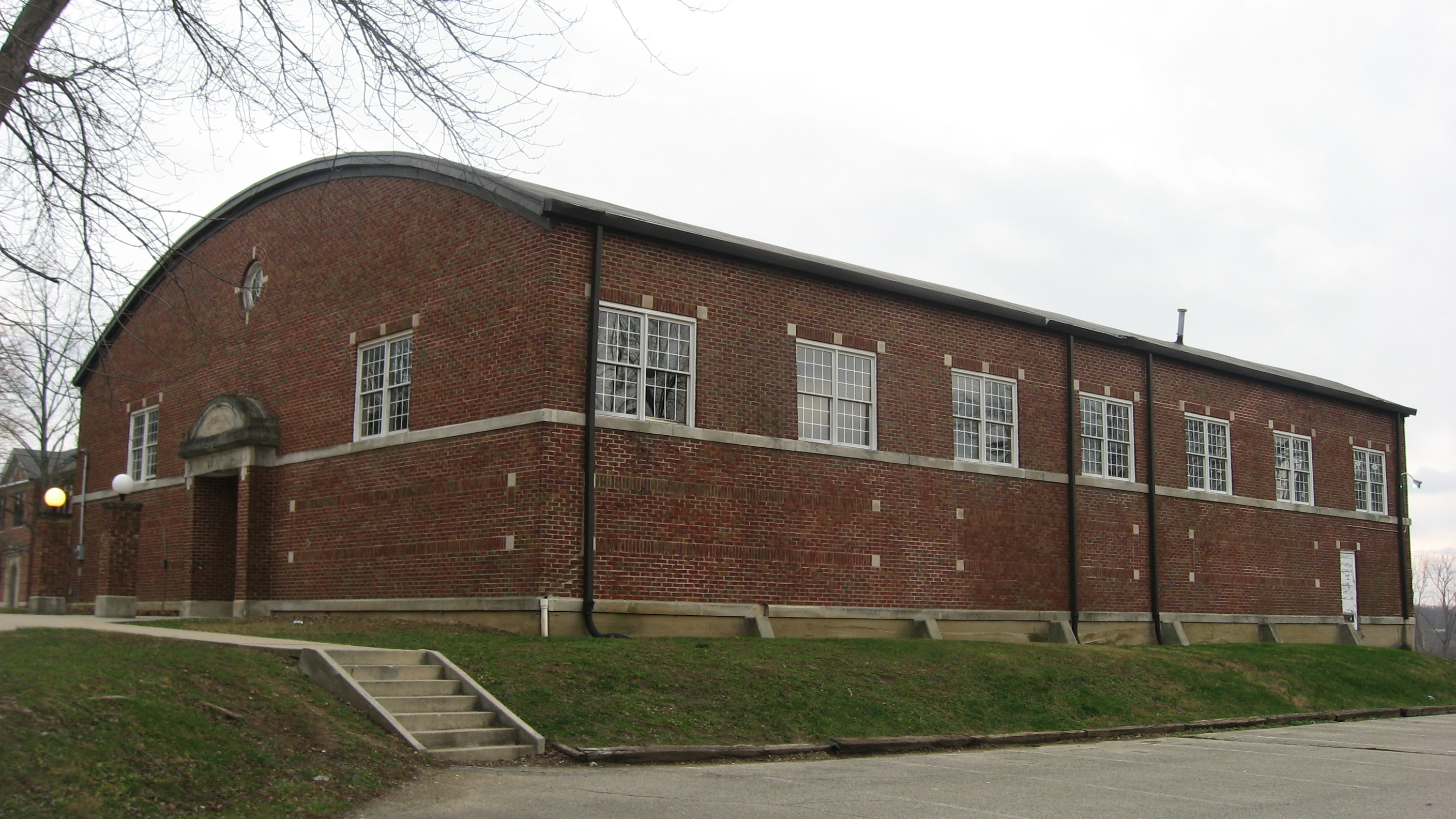 Front and northern side of the Mooresville Gymnasium, located at 244 N. Monroe Street (State Road 267) in Mooresville, Indiana, United States. Built in 1921, it is listed on the National Register of Historic Places.